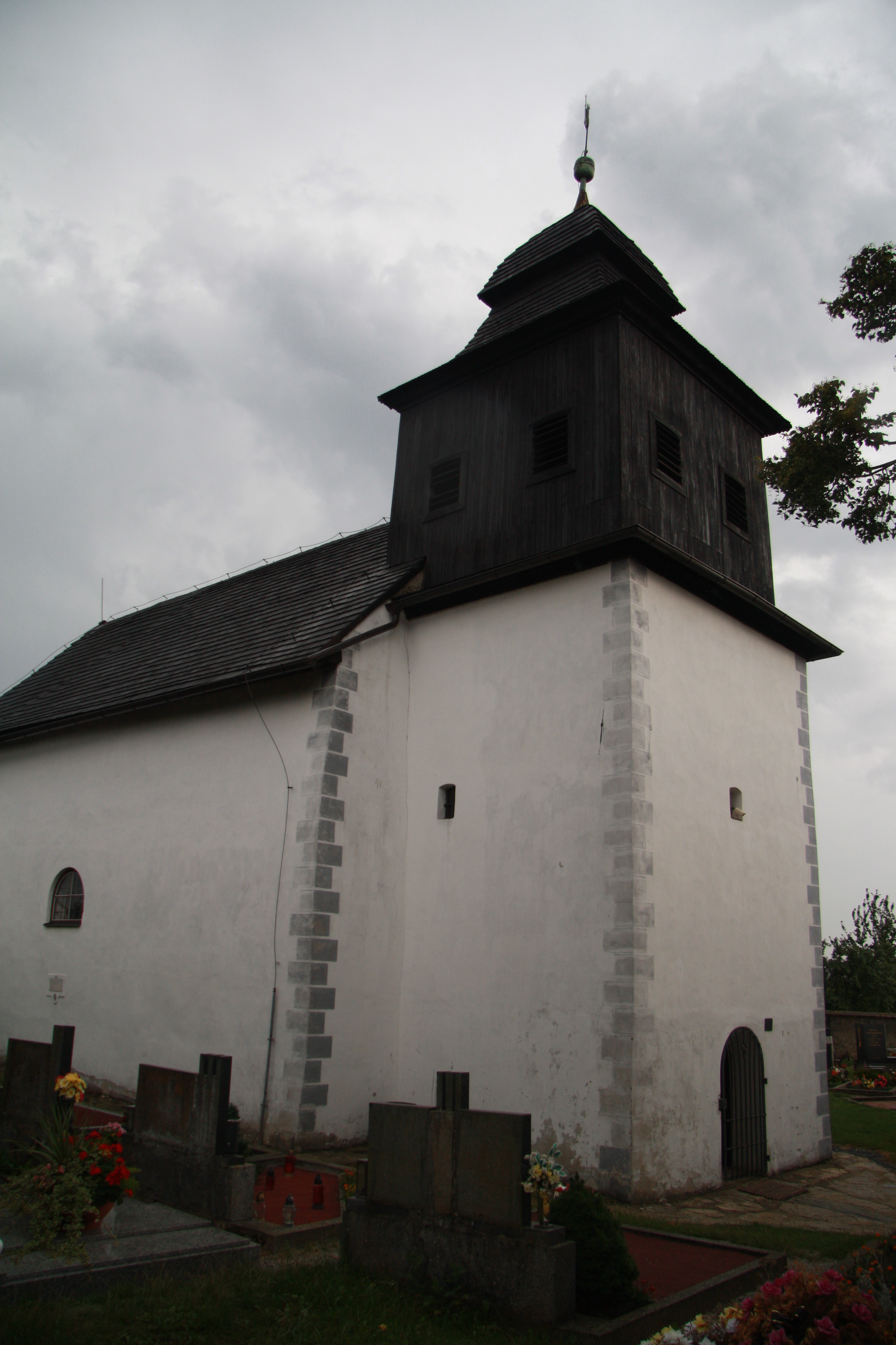 Church of Saint Clemens in Jasenice, Třebíč District.